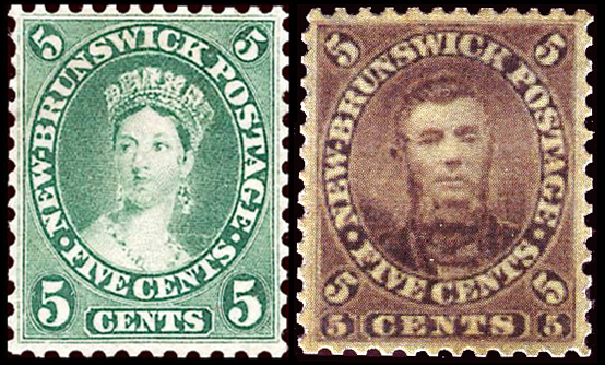 5 cents postage stamps of New Brunswick (Canada) with Queen and Charles Connell, 1860